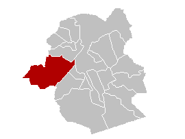 Map of municipality Anderlecht, Belgium